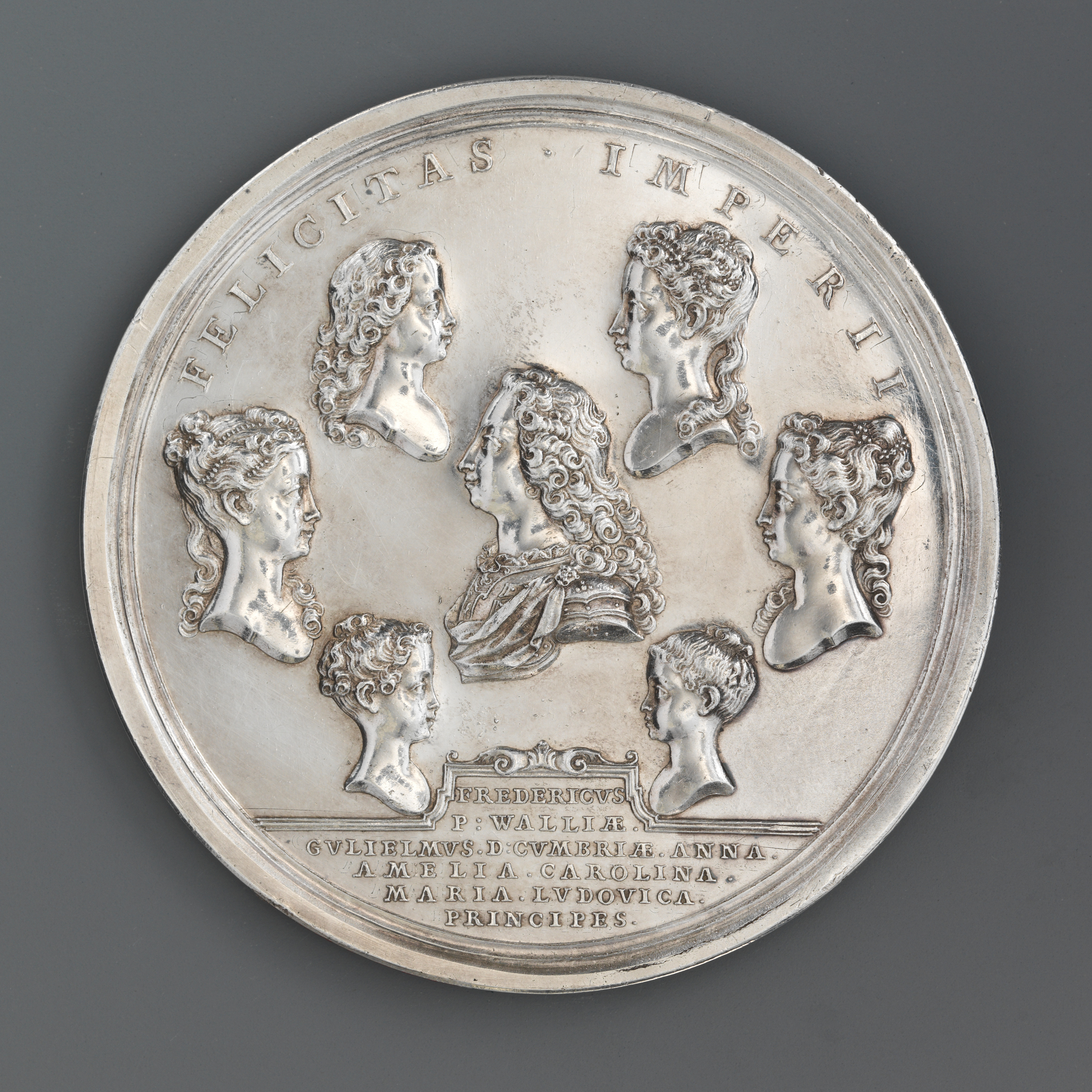 British; Medal; Medals and Plaquettes